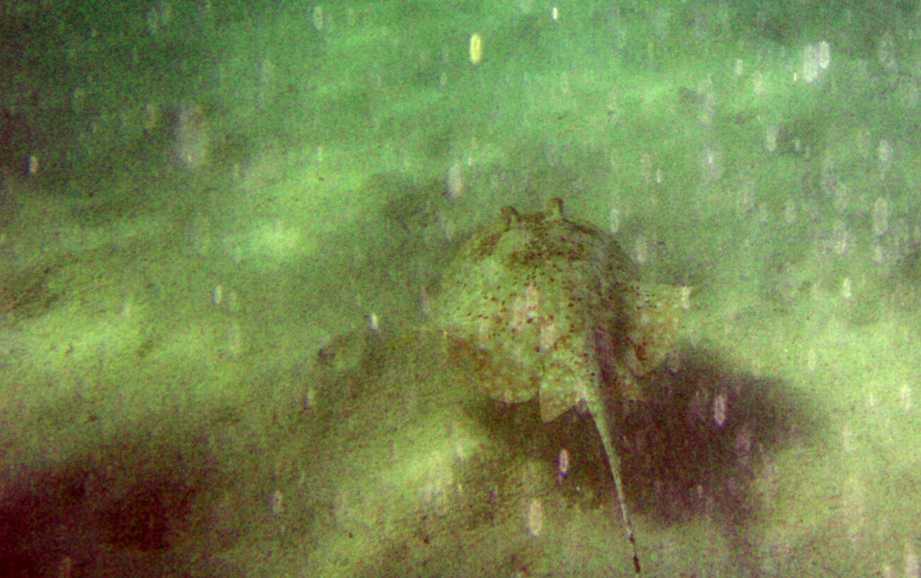 Neotrygon ningalooensis off Western Australia